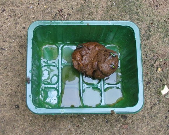 Worldwide: various ecosan teaching photos